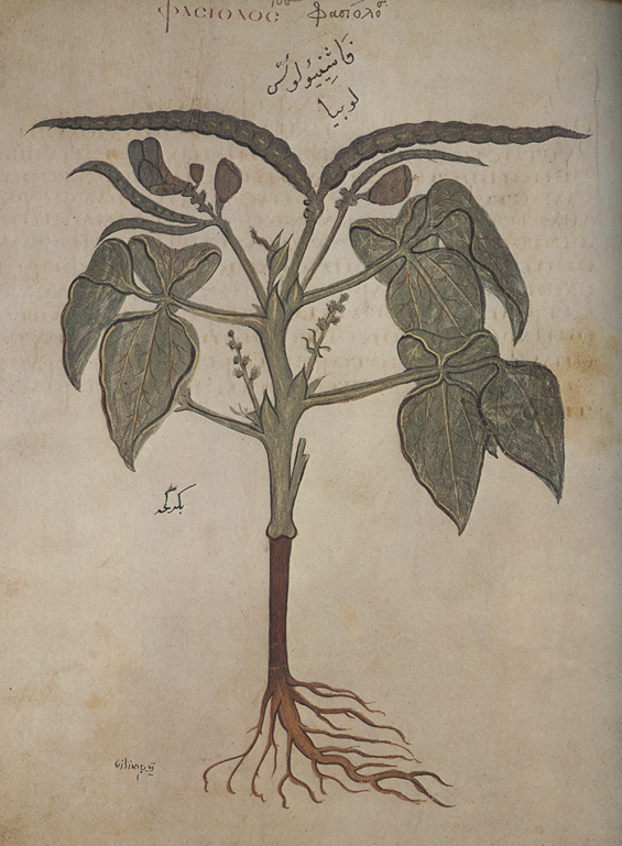 Vigna unguiculata folio 370v